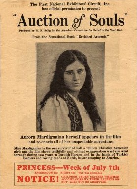 Aurora Mardiganian, Film poster/flyer for the 1919 film Auction of Souls (1919).